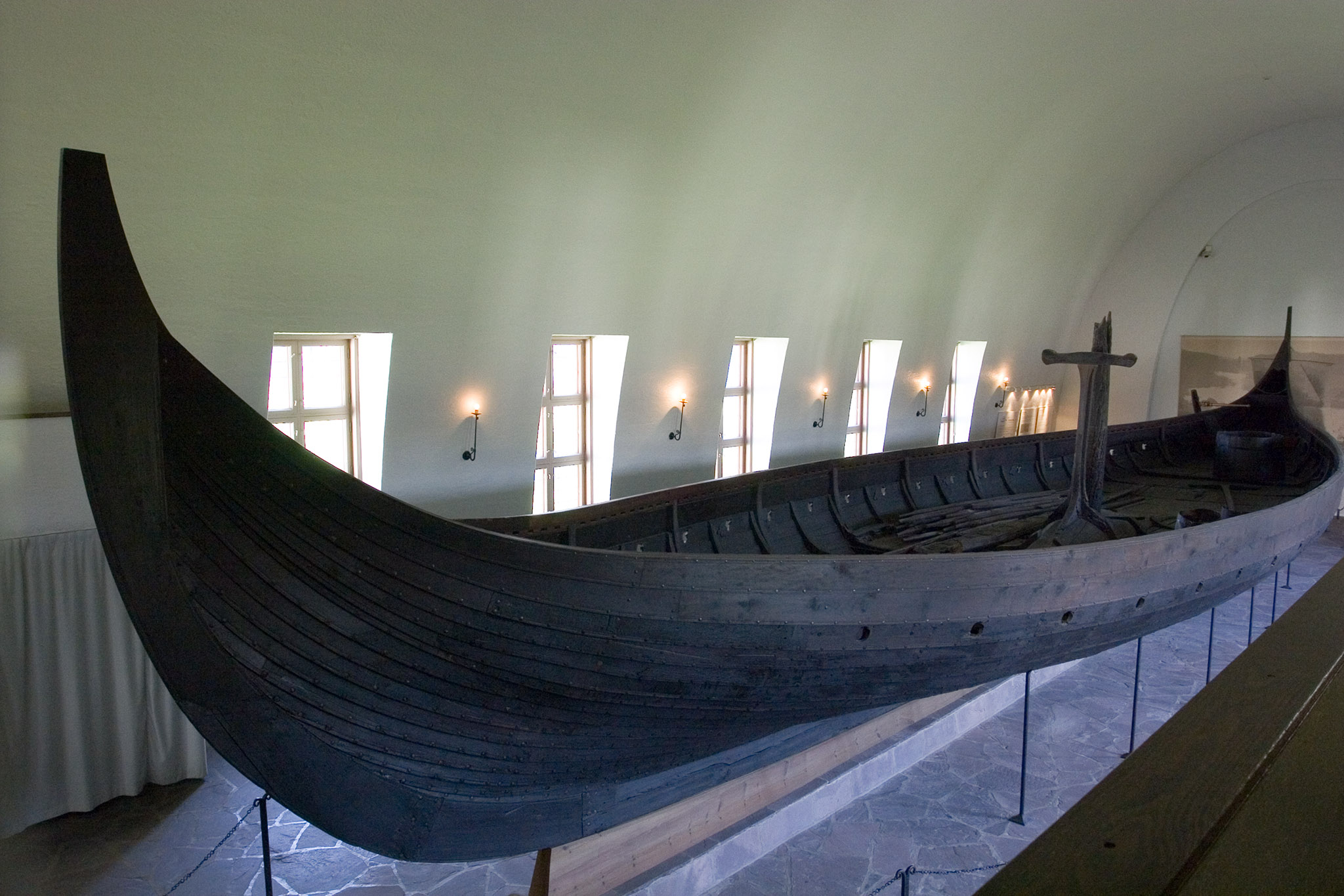 Viking Ships Museum / Oslo, Norway